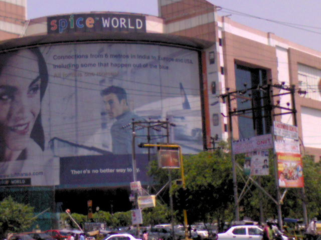 Spice Mall Entrance, NOIDA